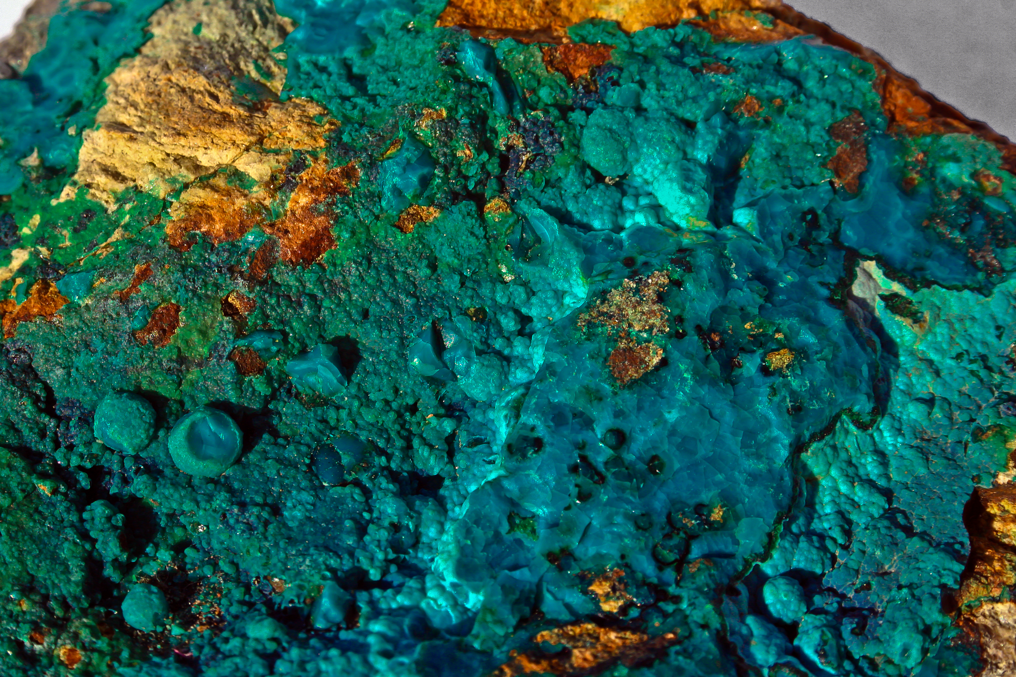 A close-up photograph of a specimen of Chrysocolla from Australia.